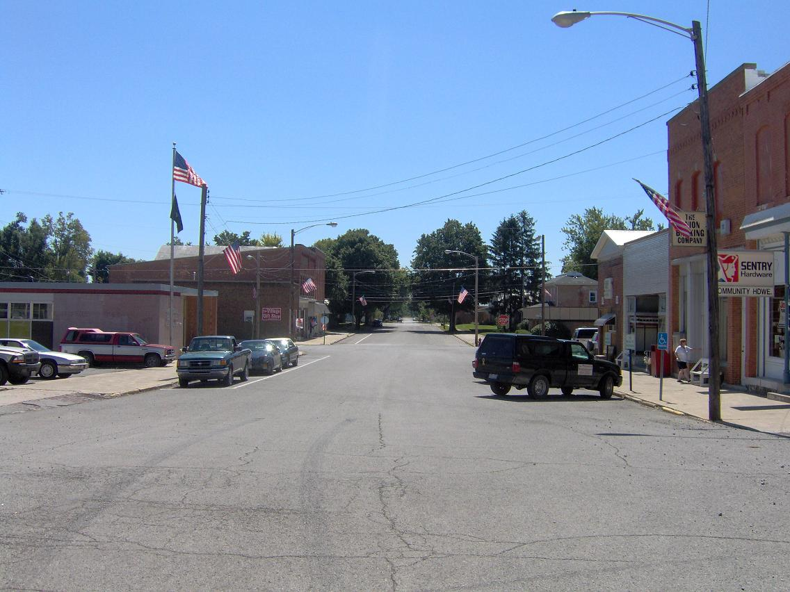 Looking southeast on Main Street in the small business district of Belle Center, a village in Logan County, Ohio, United States. Picture taken from the village's abandoned railroad bed.